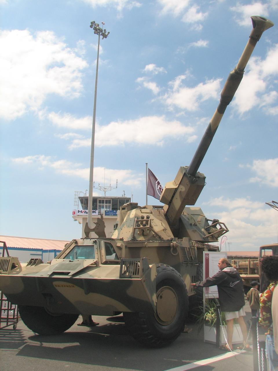 South African designed and manufactured Denel G6